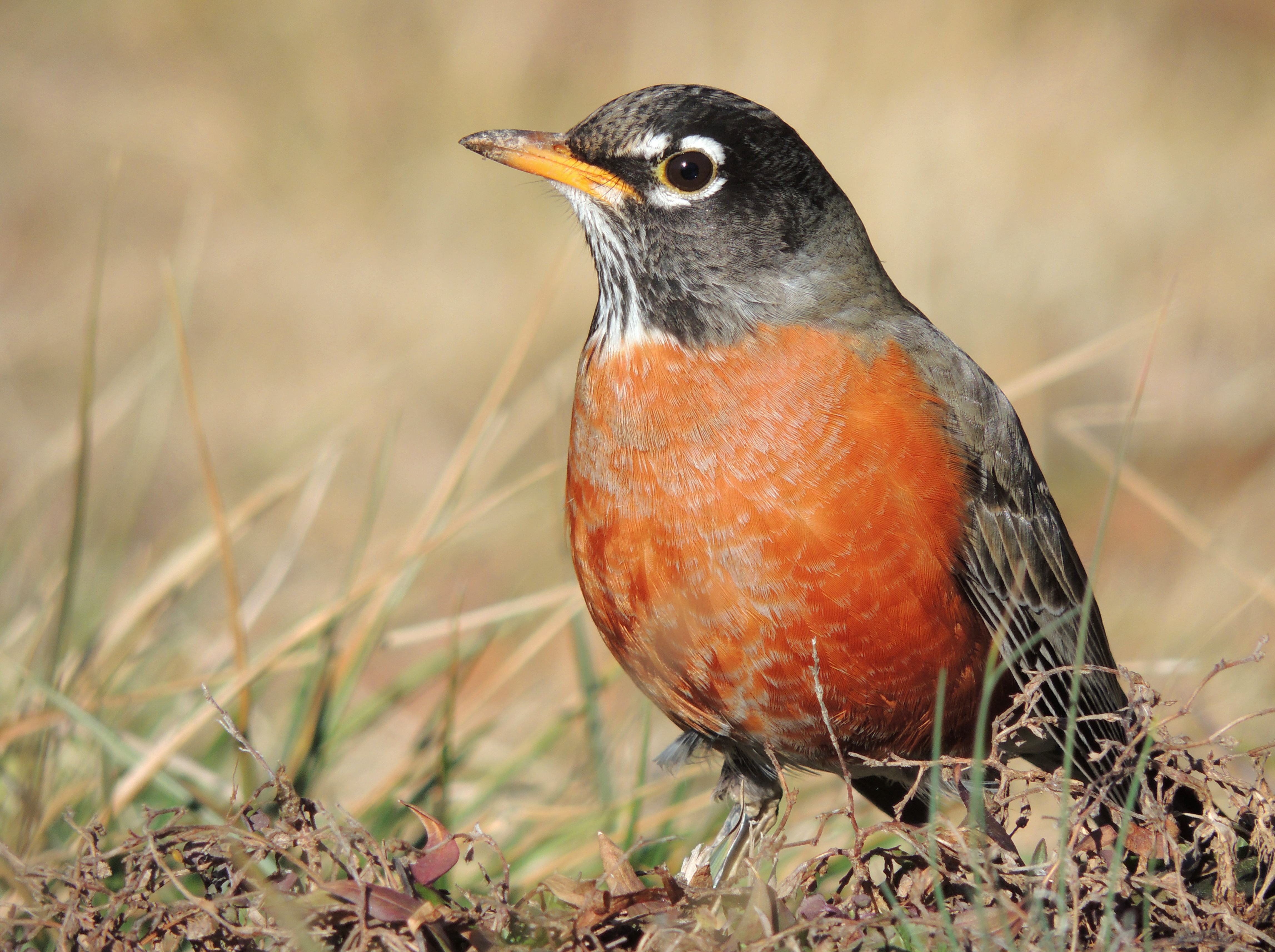 An American Robin photographed while searching for food in a Missouri field.